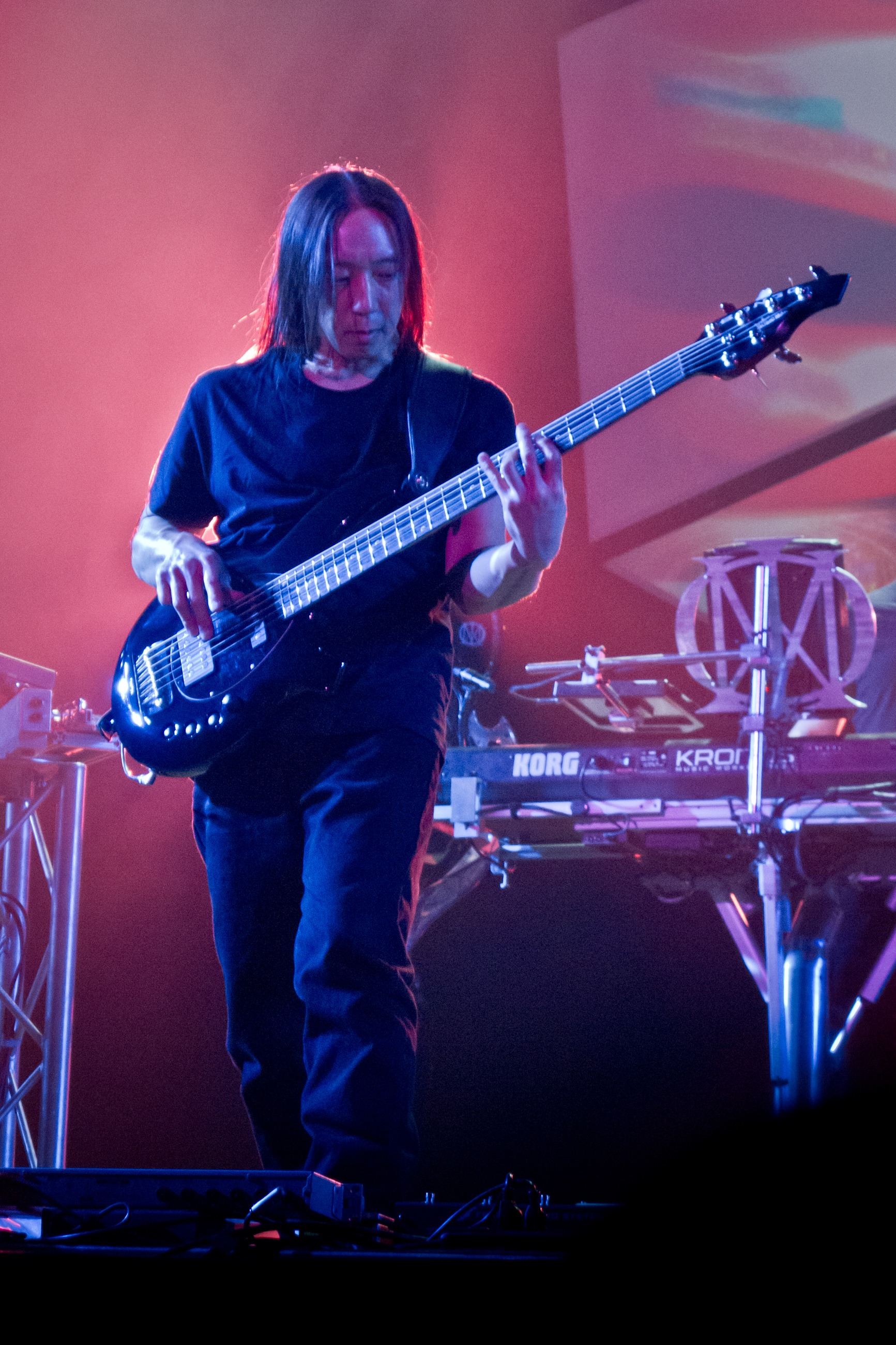 Dream Theater's bassist, John Myung, live in 2012.